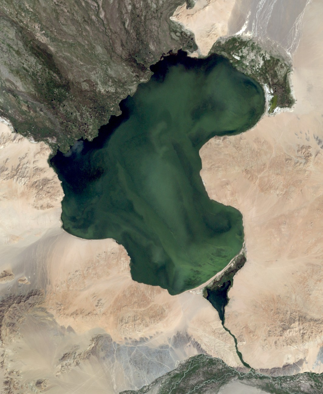 Achit-Nuur lake, West Mongolia, Landsat-7 near natural color, 30 m resolution